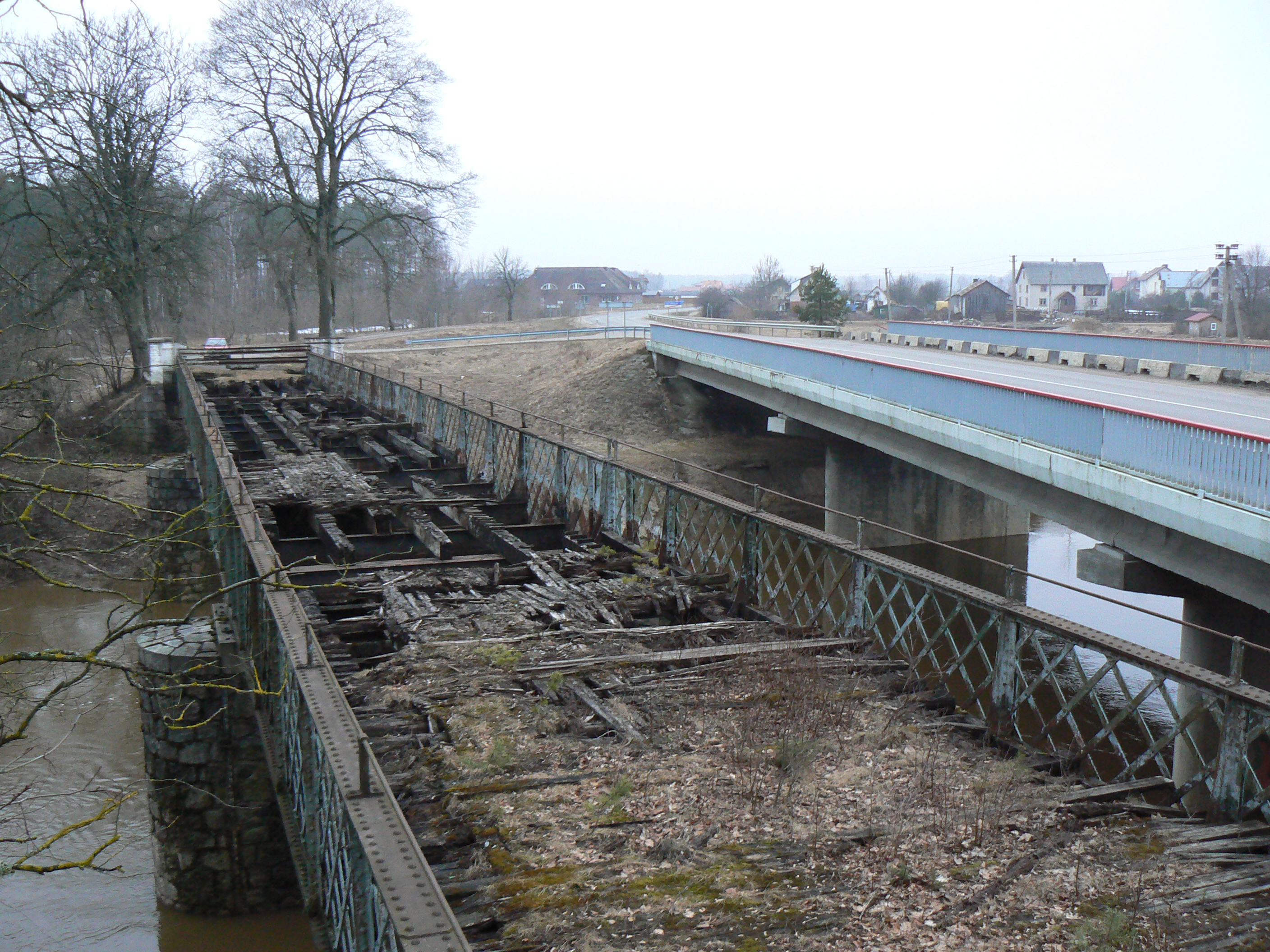 Šernai. 2 bridges. Minija.